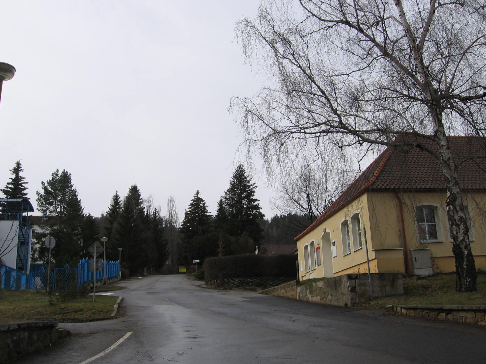 Former Barracks of the 62nd Motor Rifle Regiment in Prachatice.